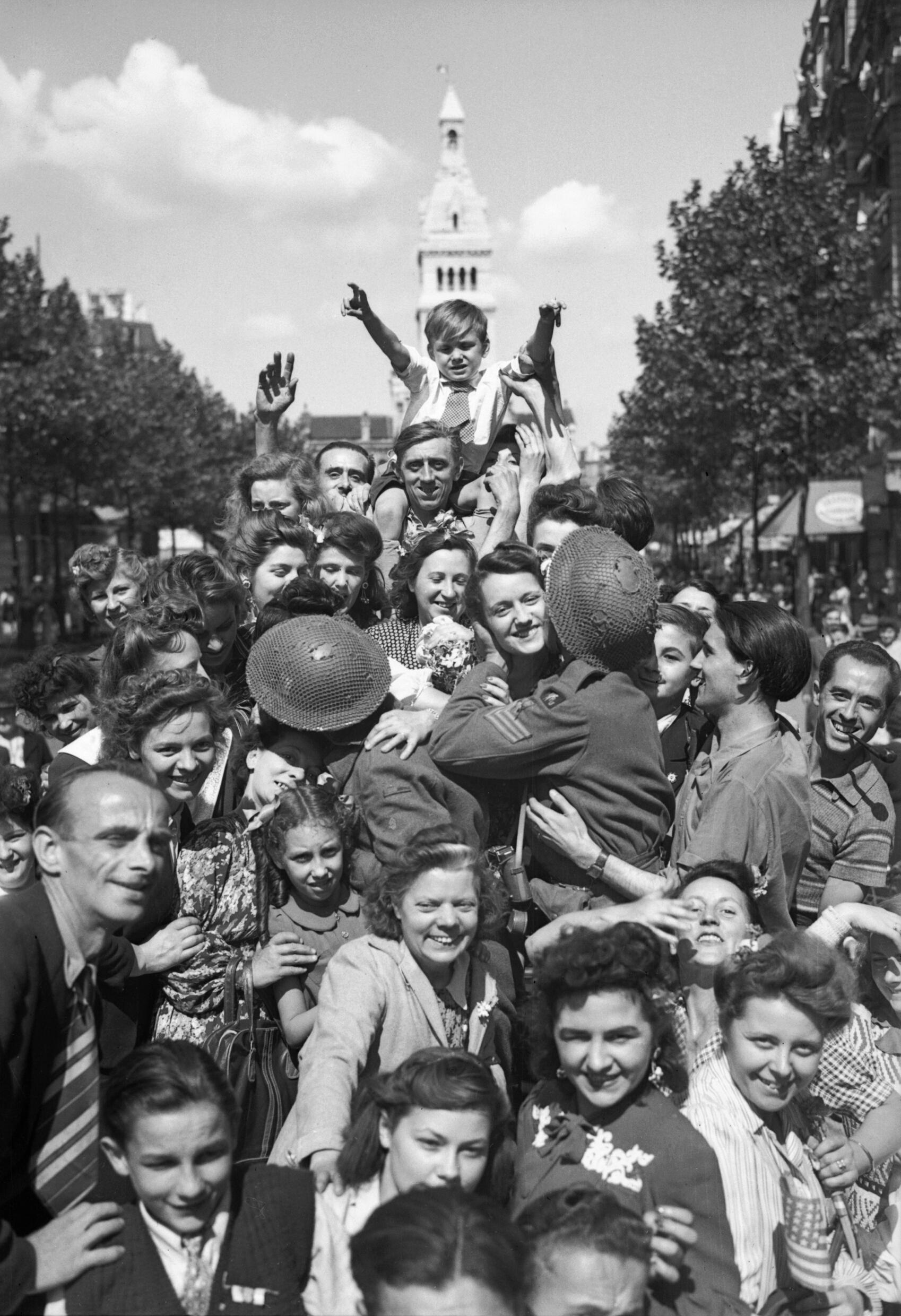 Cheering crowds greet British troops in Paris, 26 August 1944. Cheering crowds greet British troops in Paris, 26 August 1944.